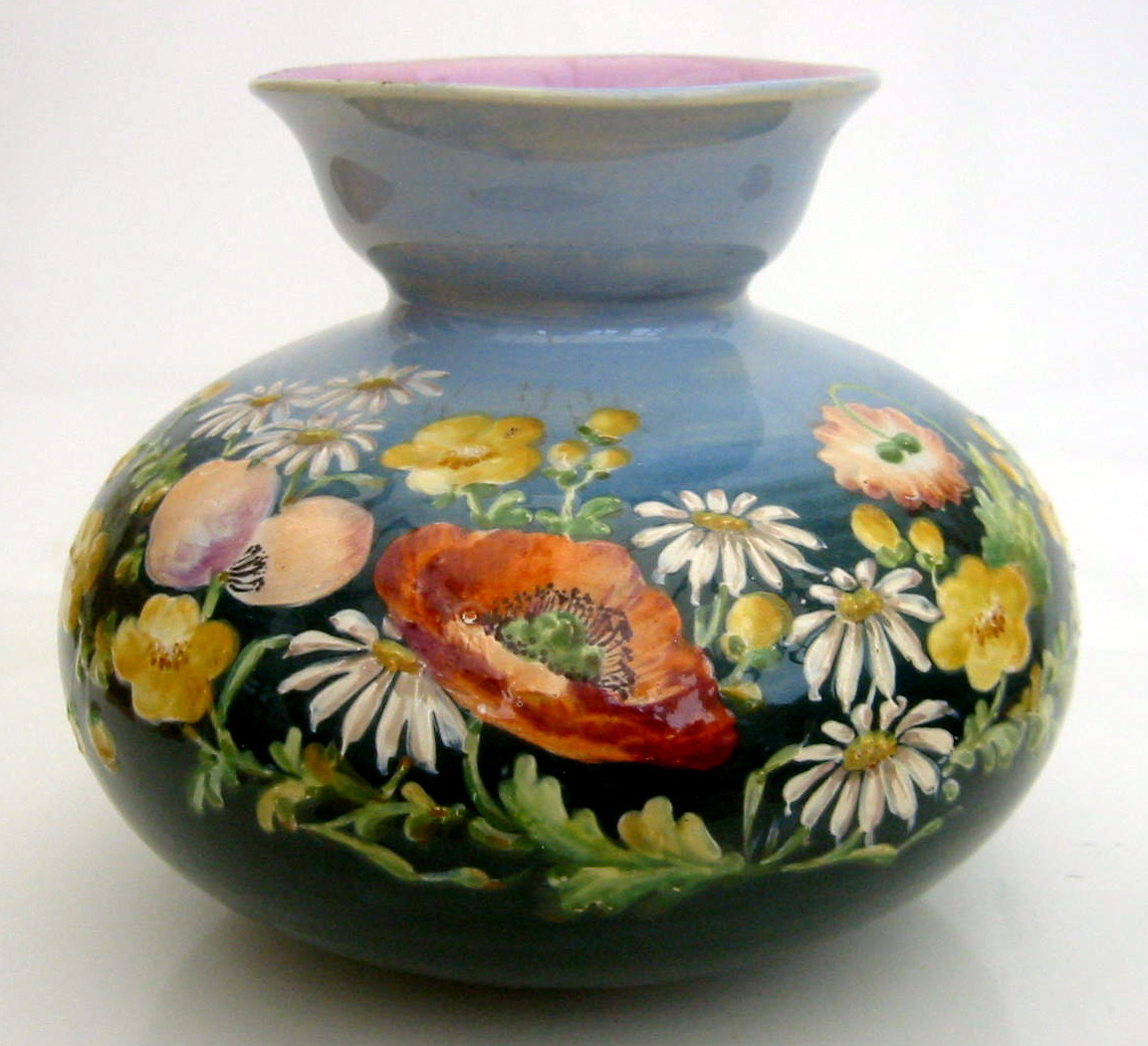 Salopian Art Pottery barbitone vase, Benthall, Shropshire, England, c.1900 © John Malam 2007 Salopian Art Pottery barbitone vase, Benthall, Shropshire, England, c.1900 © John Malam 2007